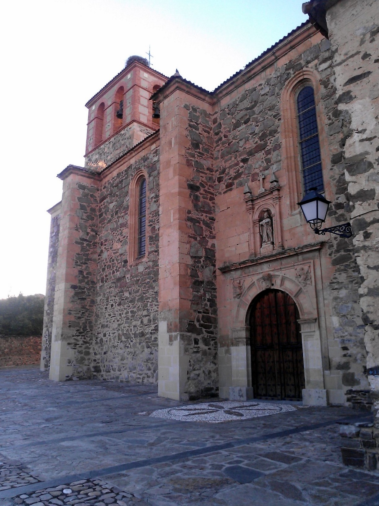 Church of St. Peter in Bernardos, Segovia, Spain.